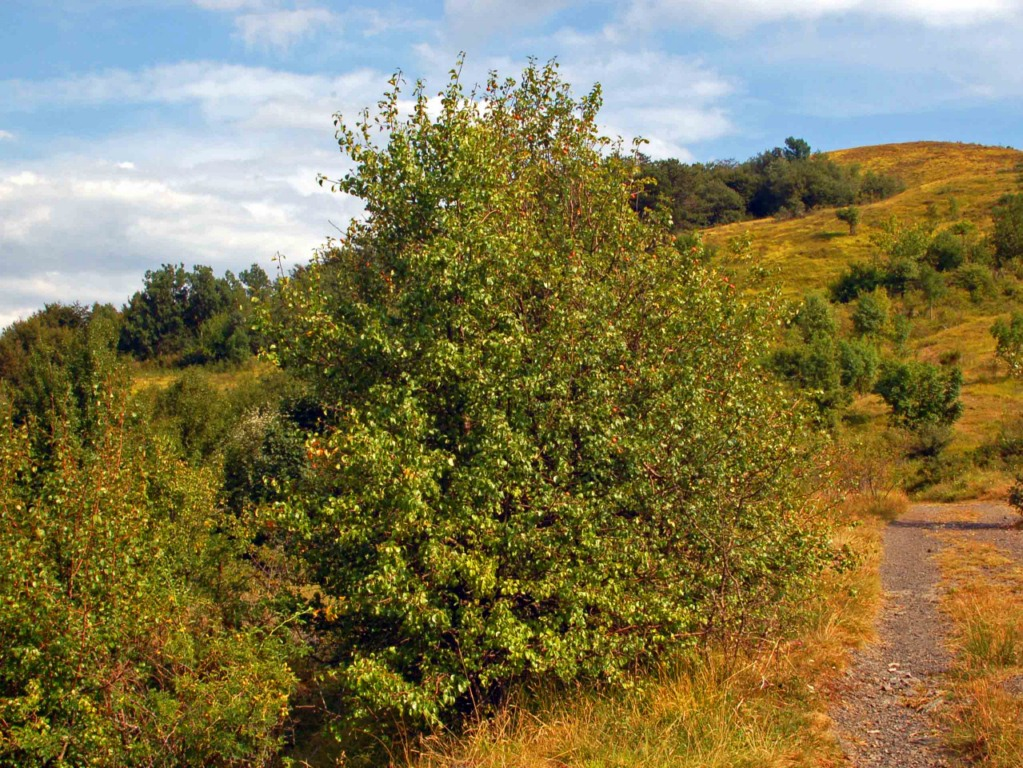 Pyrus pyraster - Parco dell'Antola, Genova, Italy